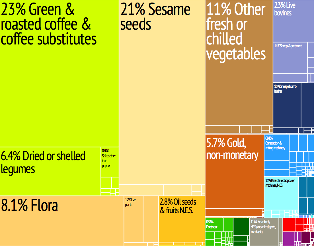 Export Trading Treemap. From MIT/Harvard Atlas of Economic Complexity